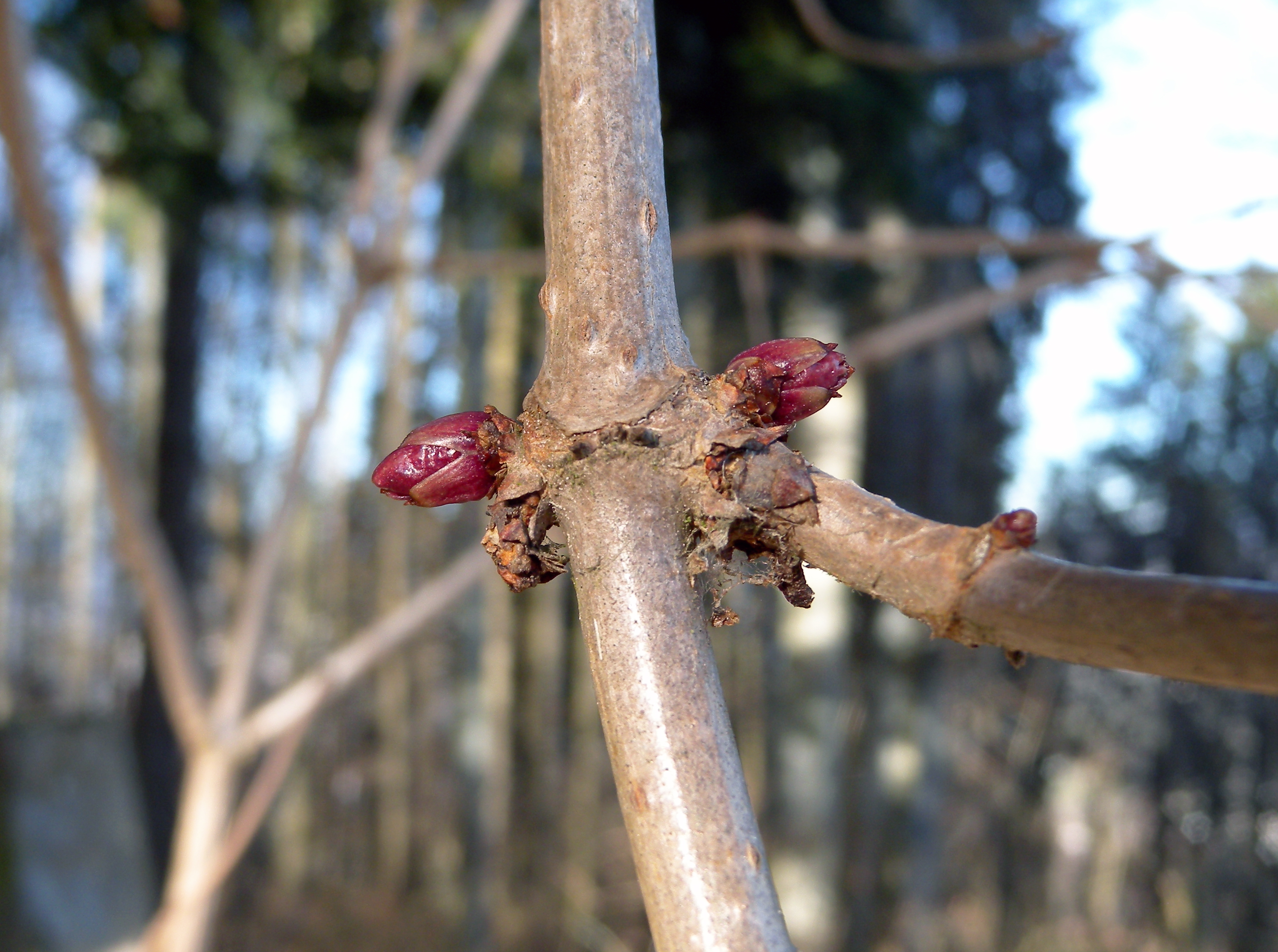 Buds of Sambucus nigra (Adoxaceae); Gurten, Bern, Switzerland